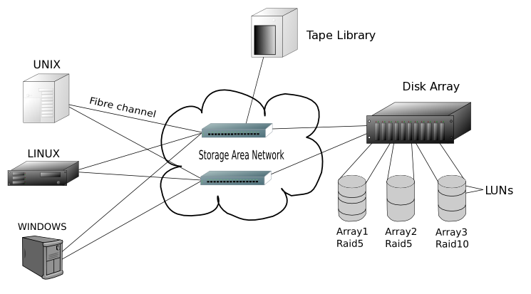 Schema of a Storage Area Network (SAN)